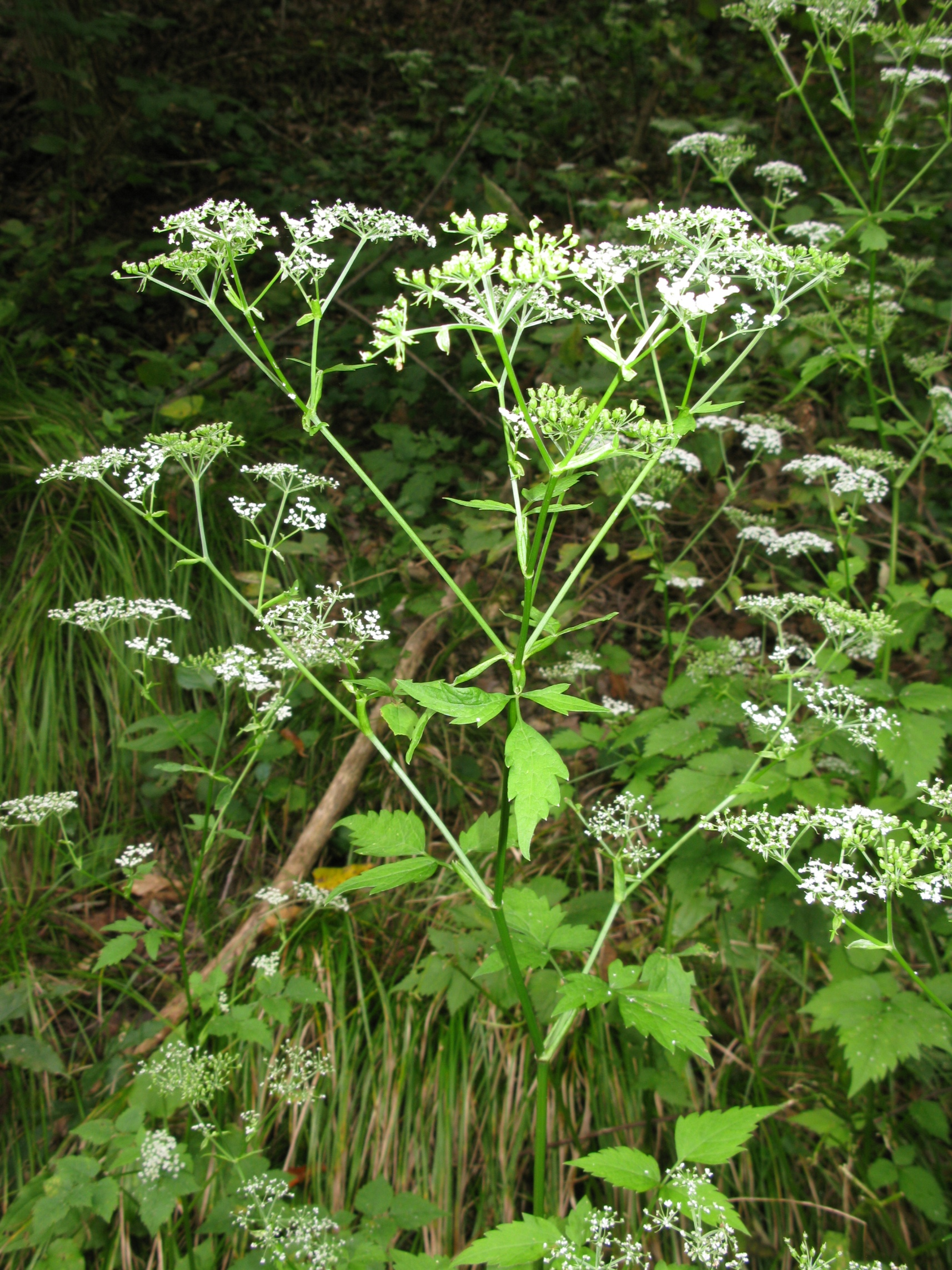 Ostericum sieboldii, Aizu area, Fukushima pref., Japan